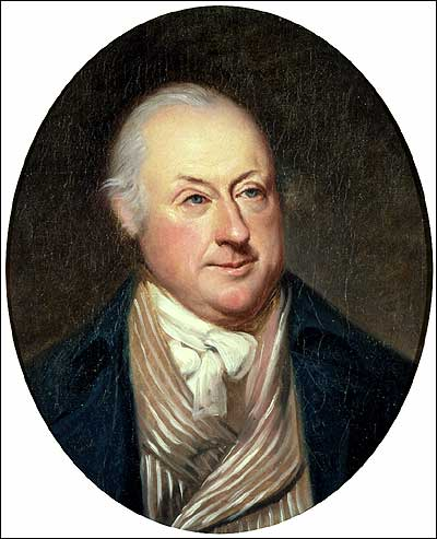 Potrait of Governor John Page of Rosewell Plantation, Gloucester County, Virginia. Courtesy of Independence National Historical Park.